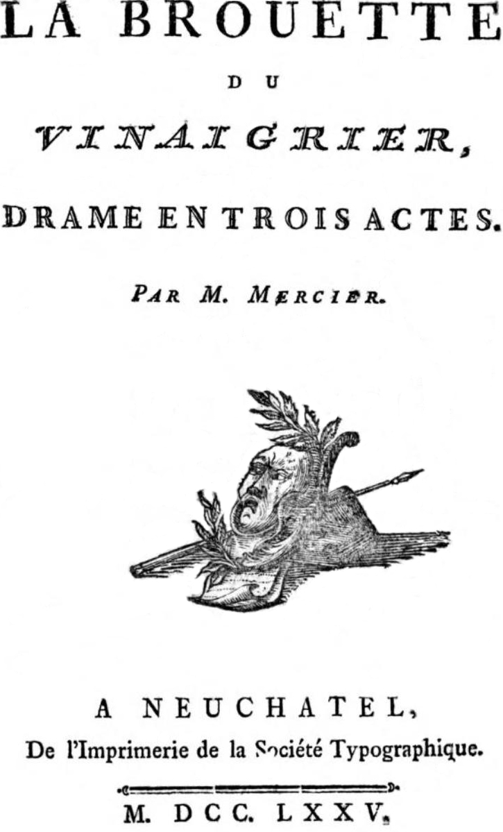 Title page from "The Vinegar Dealer's Wheelbarrow" (1774), by Louis-Sébastien Mercier (1740-1814)